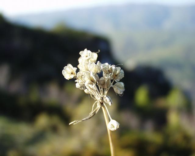 (en) Allium flavum, a photography originating of the internet site The accord of the autor, H. Brisse, is here. (fr) Allium flavum, une photographie issue du site internet L'accord de l'auteur, H. Brisse, se situe ici.